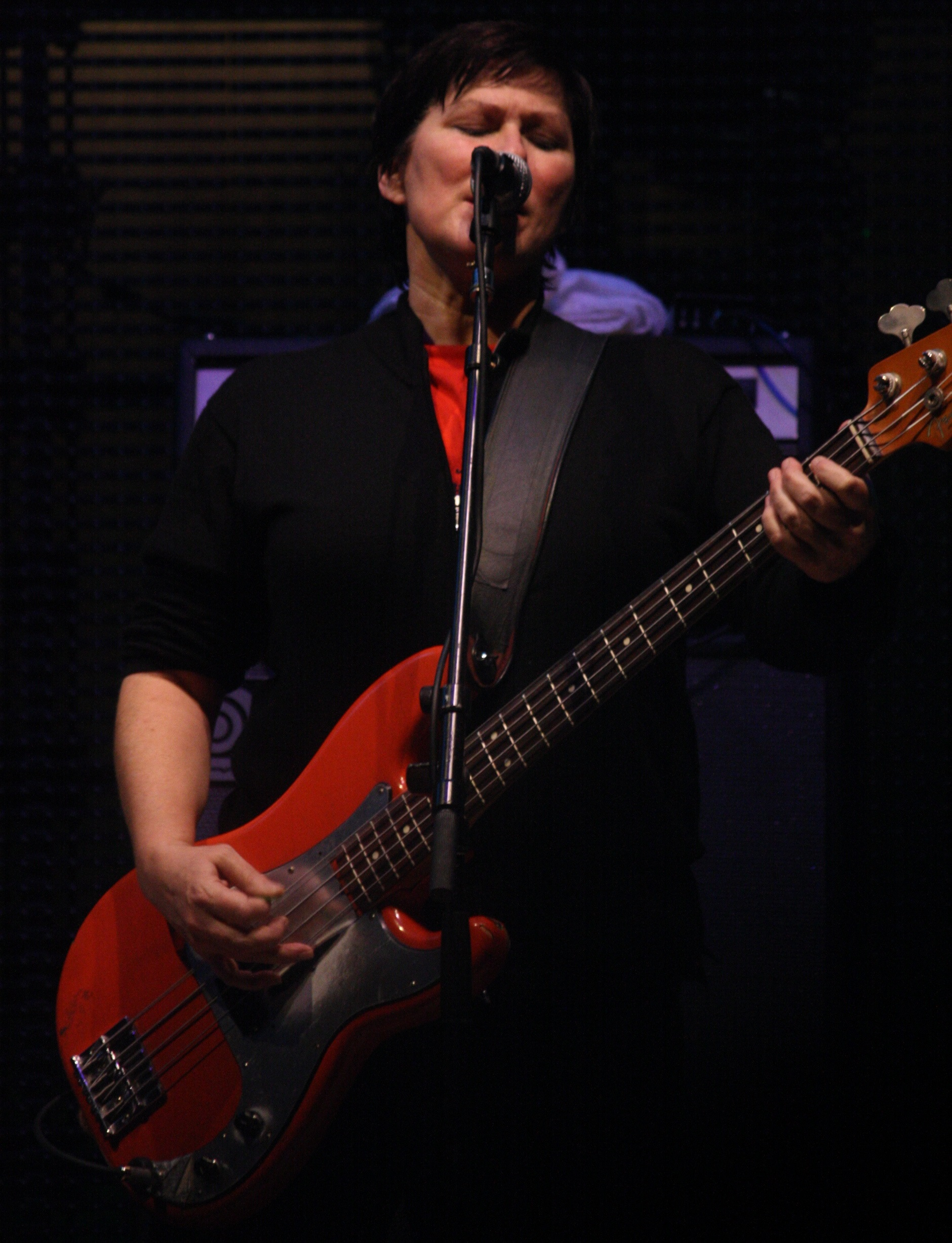 Kim Deal on the 1st of December 2009.